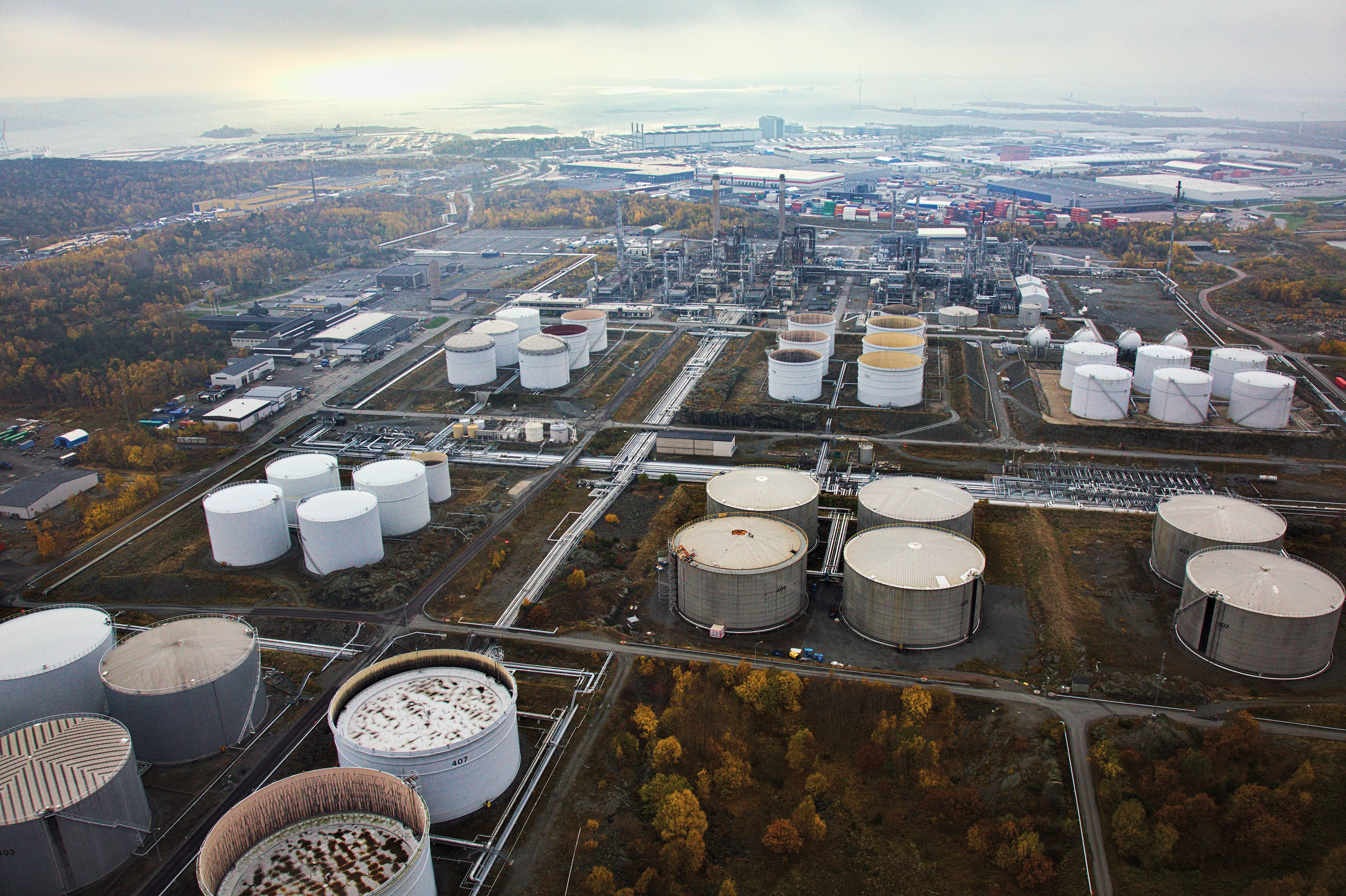 Photo taken on a helicopter over Gothenburg